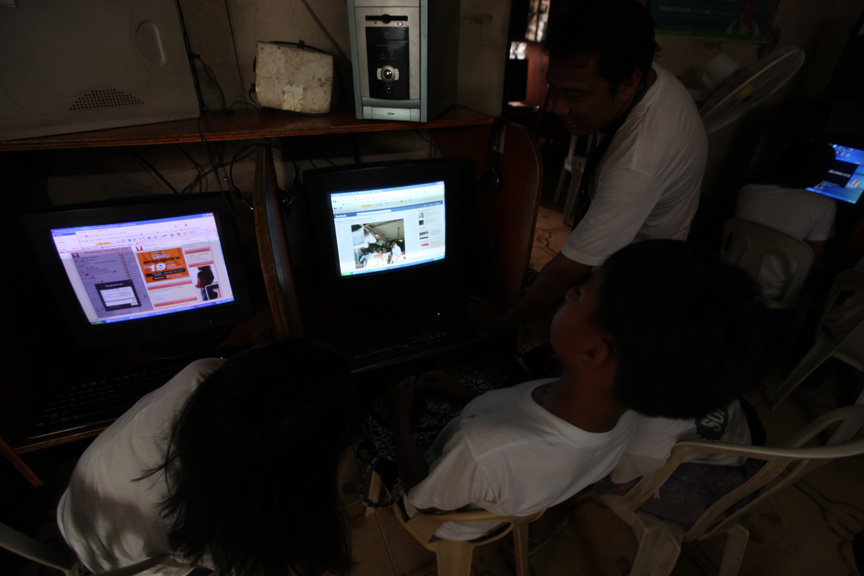 Locals from the Barangay of San Jose visit the Amphibious Landing Exercise social media website at a local internet cafe here, Oct. 15. The photographs, videos, and articles published on the site are of service members from the U.S. and Armed Forces of the Philippines and local children and families throughout Luzon. (U.S. Marine Corps photo by Pfc. Nathaniel J. Henry/Released)